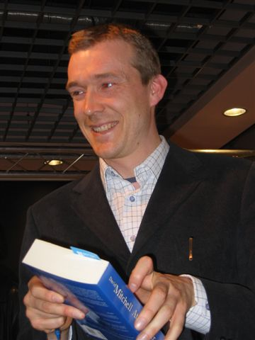 David Mitchell (b. 1969), British writer